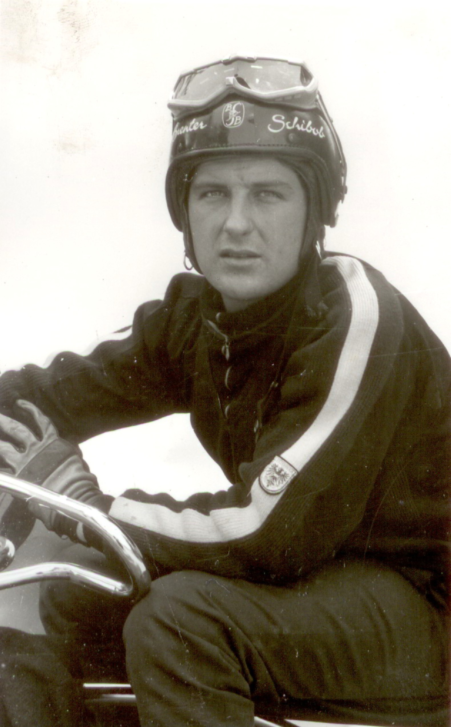 Erich Brenter Skibob Legende (Skibob, Snowbike, Skibike)